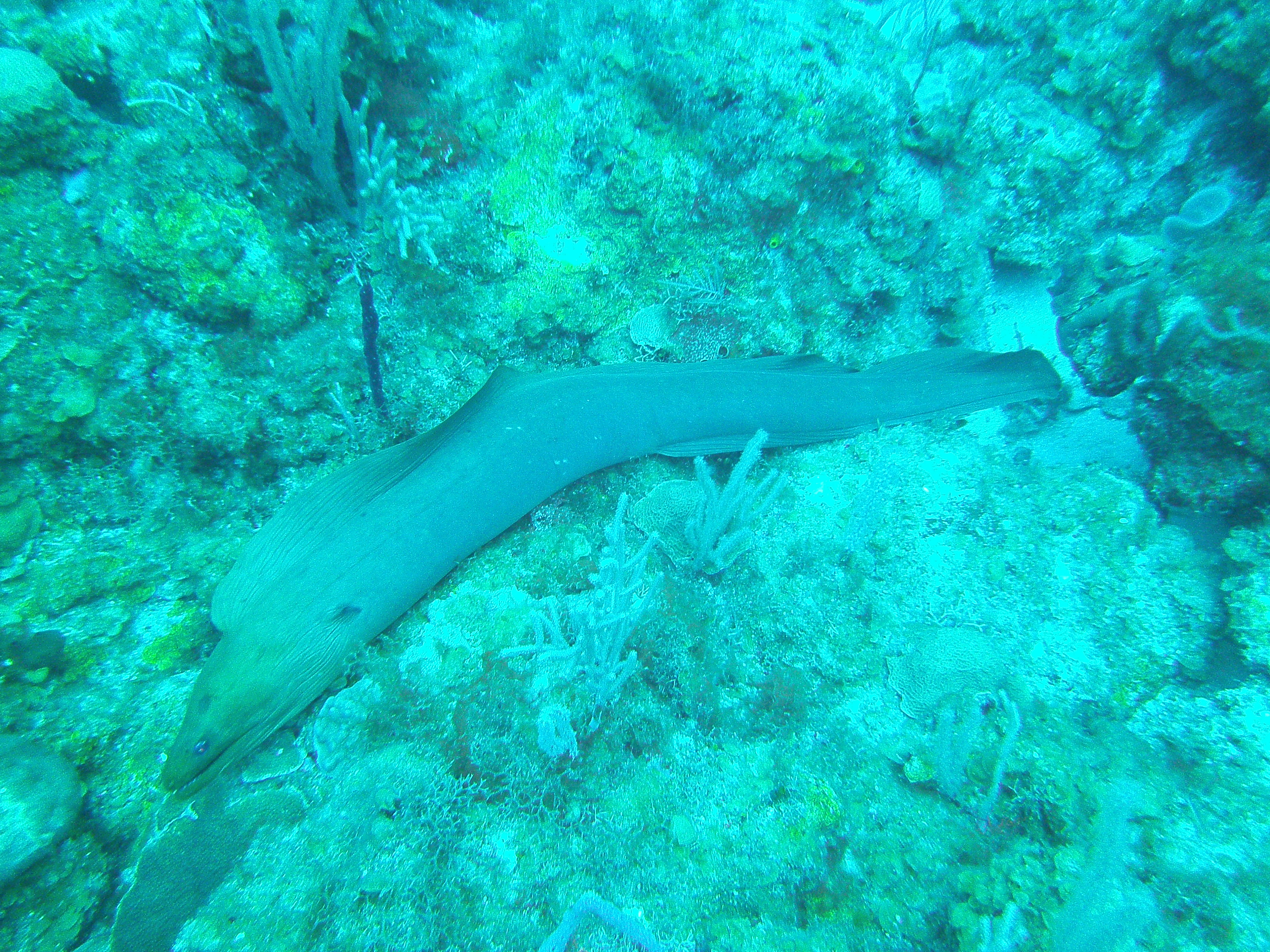 Green moray (Gymnothorax funebris) in Honduras